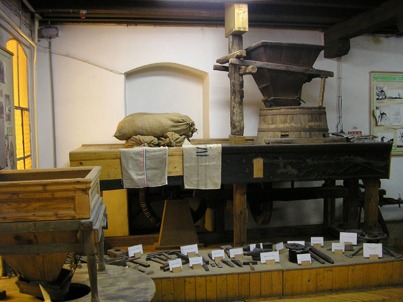 The Museum of Mill, Budapest, Hungary